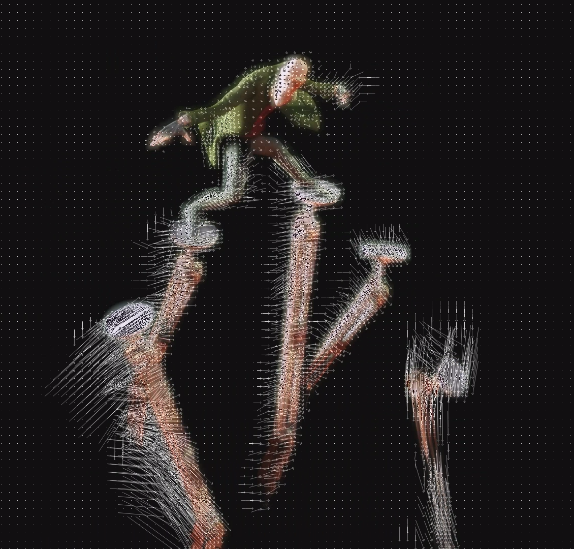 Visualized forward predicted motion vectors of a P-frame (mplayer option "-lavdopts vismv=1") in "Elephants Dream", cropped 1080p. You can see the directions of the moving pedestals and the body parts of the Proog character.